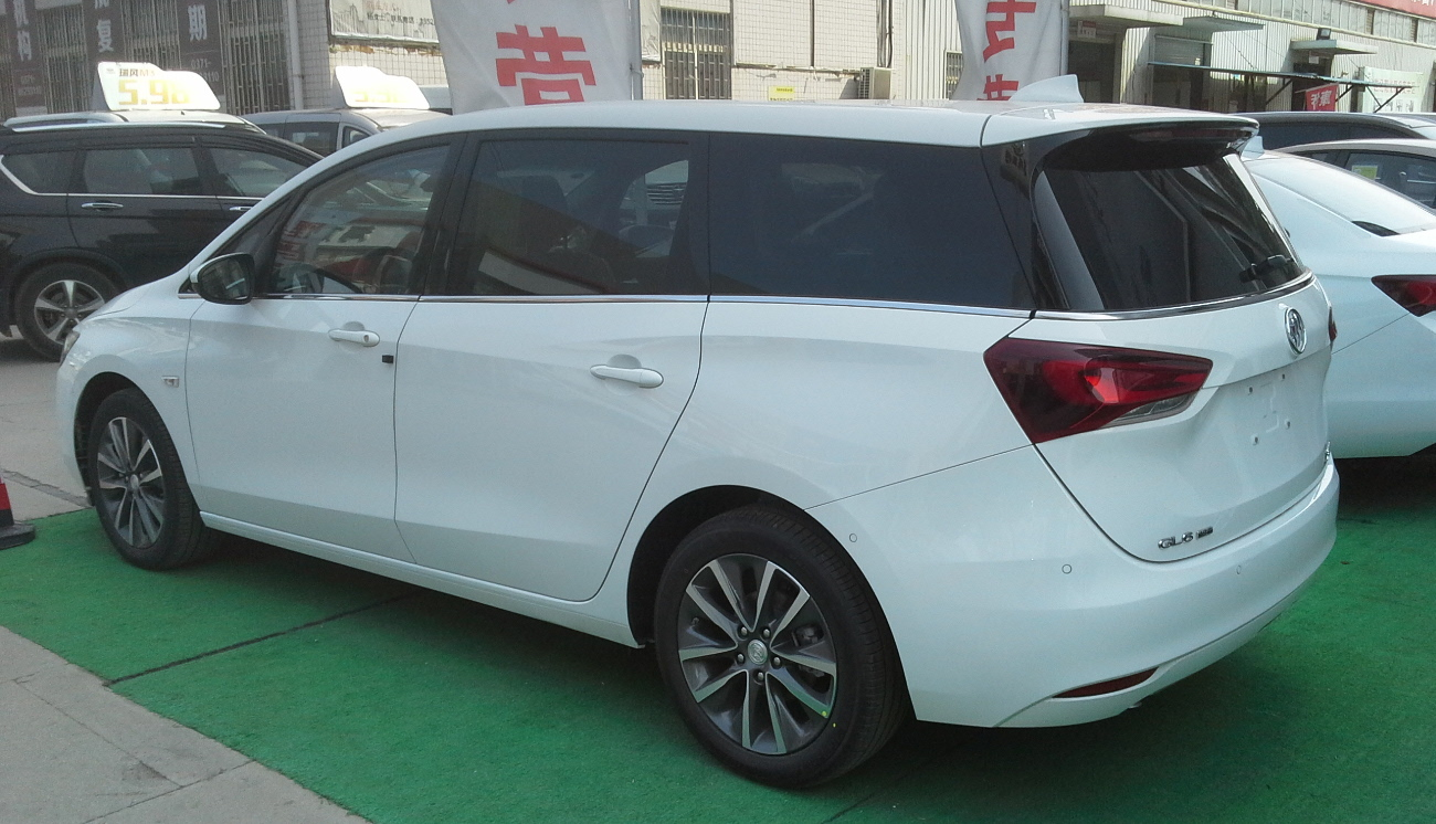 Buick GL6 photographed in Zhengzhou, Henan province, China.